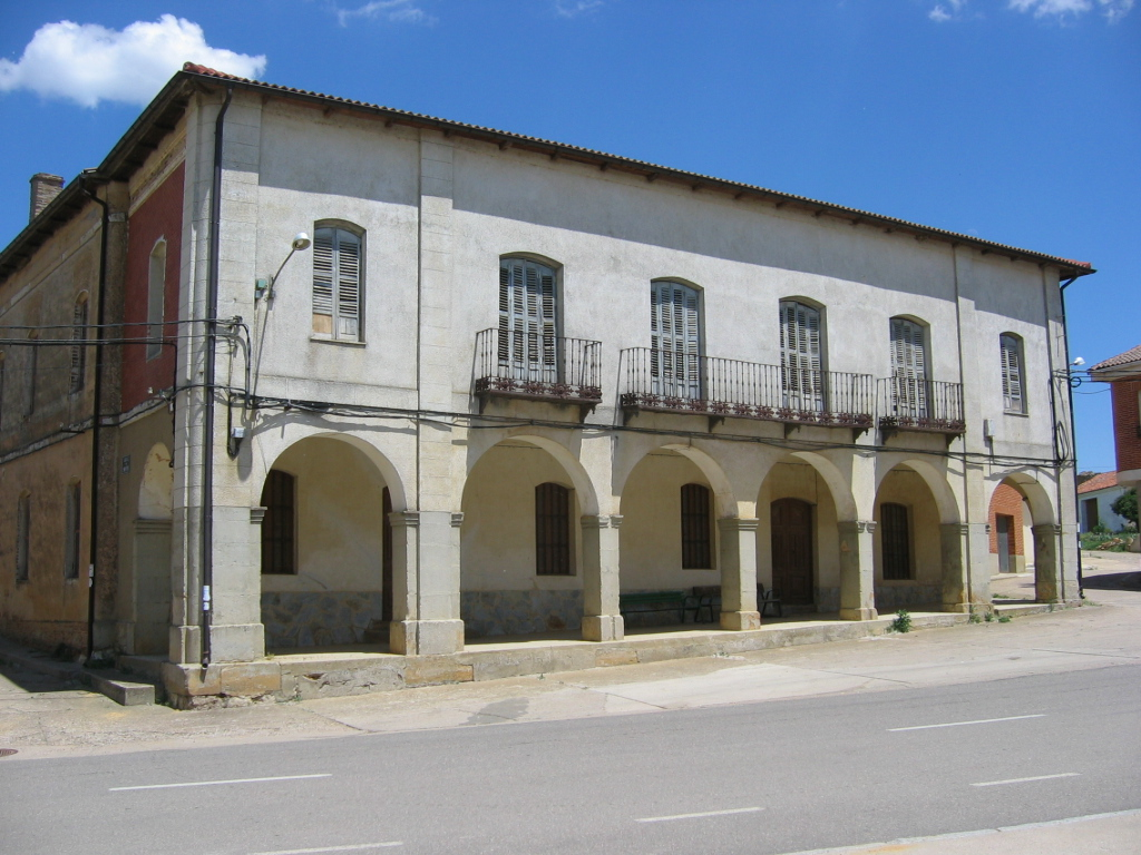 Manor house at Castrillo de Villavega (Palencia, Spain) Main Square.